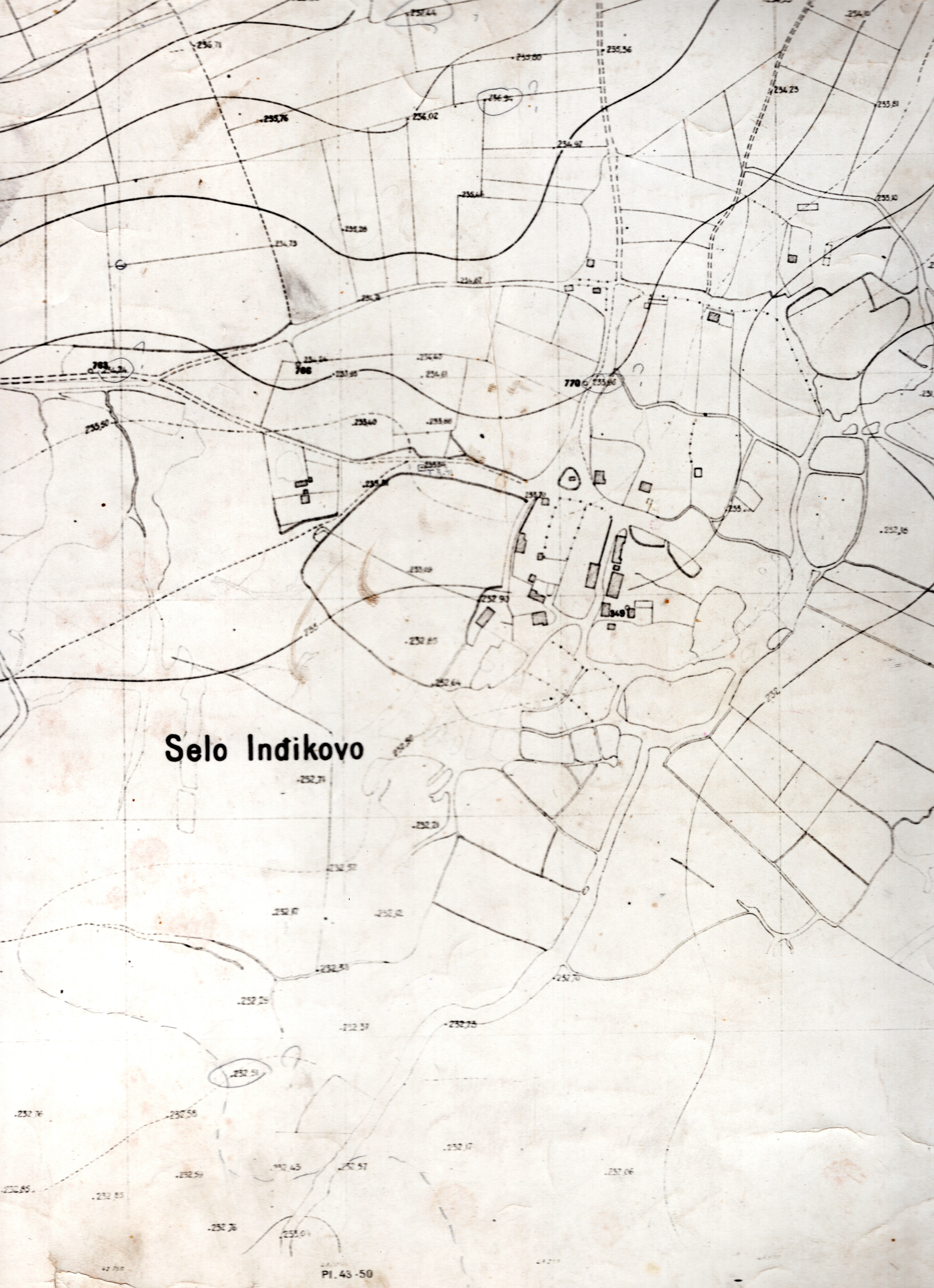 Geodesy map of Indzikovo, Macedonia, an aero photogrammetric map (1930s). This media file is produced by Wikipedian in Residence in Category:Wikipedian in Residence at DARM in 2017.